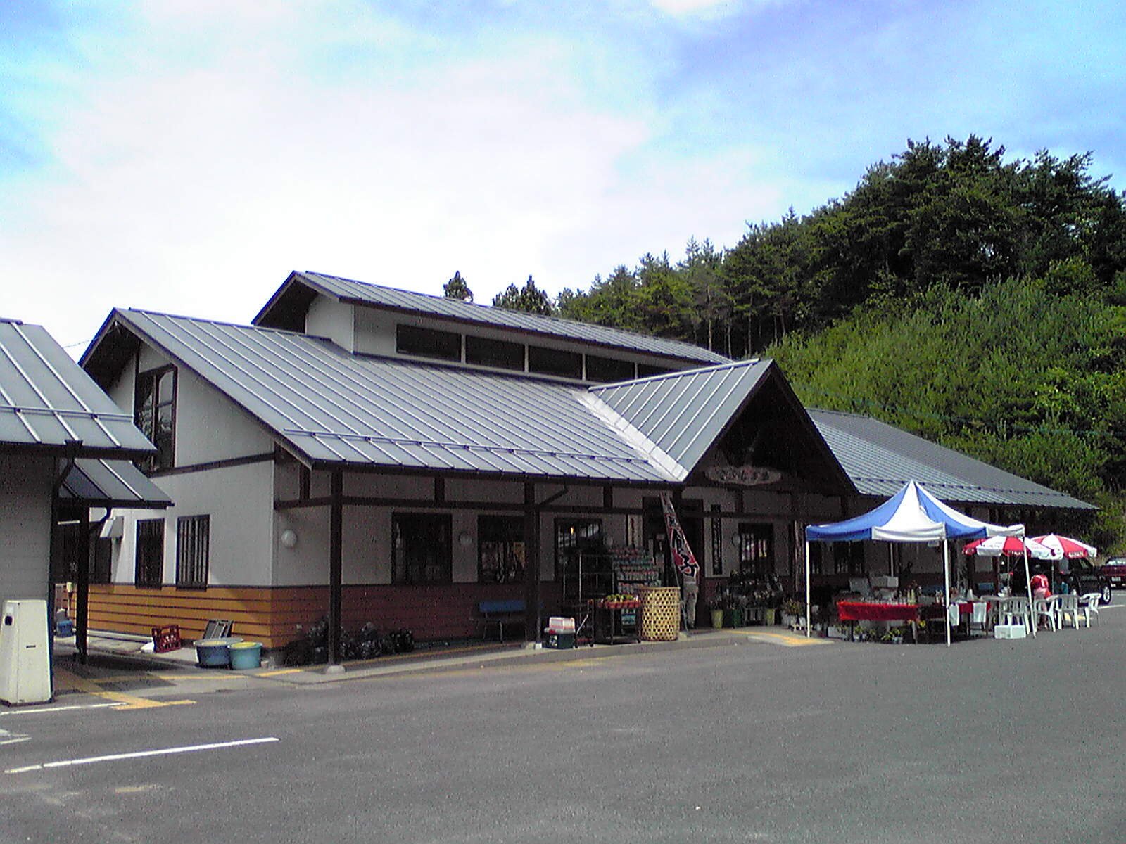 Building facade, Tamakawa, Roadside Station, Fukushima, Japan.